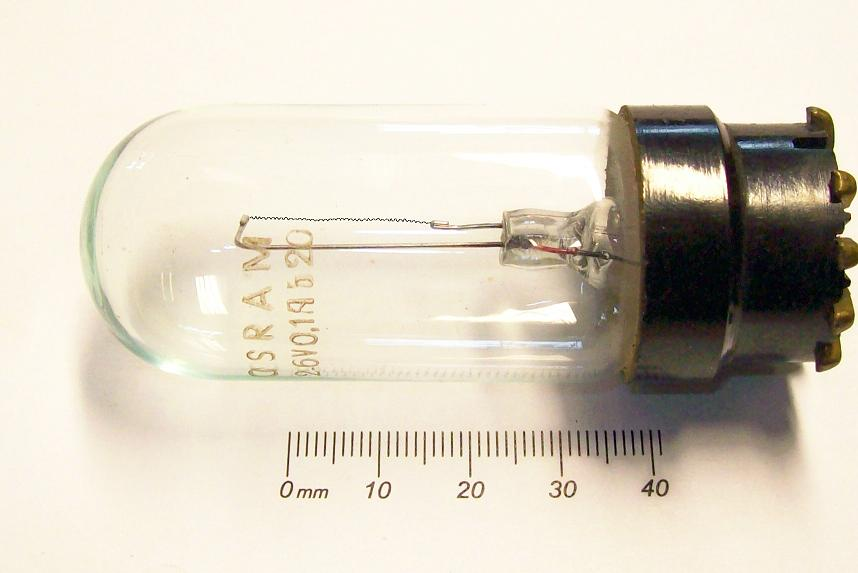 Iron hydrogen resistor, 2-6 V / 100mA